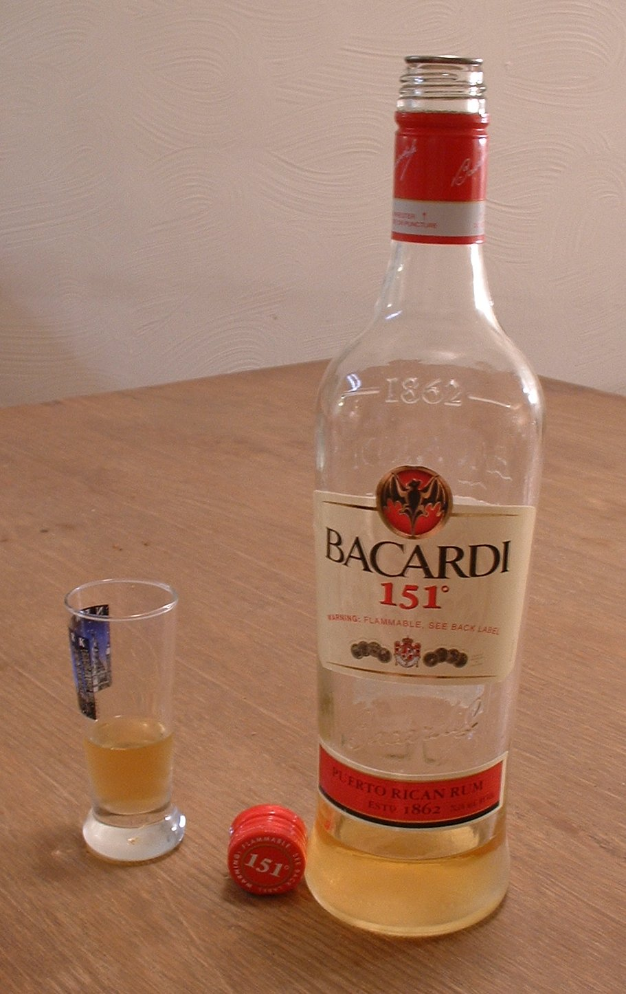 A mostly-empty bottle of Bacardi 151 pictured with cap and shotglass. Notice the metallic flame arrester on the spout.